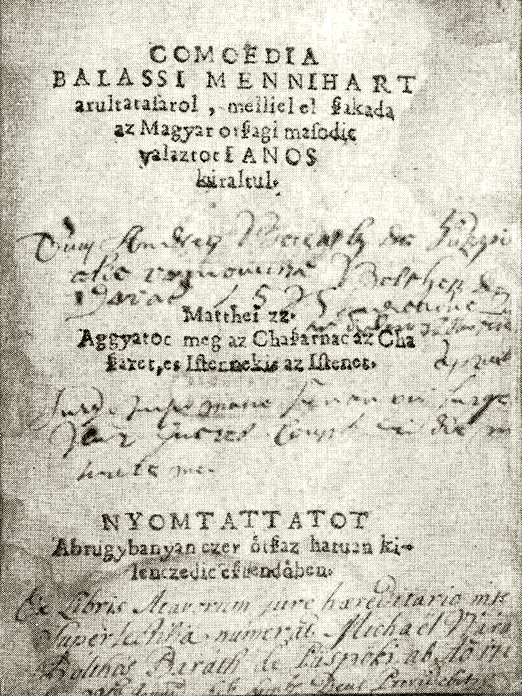 Title pages of Comoedia Balassi Menyhárt árultatásáról (Hungarian play)